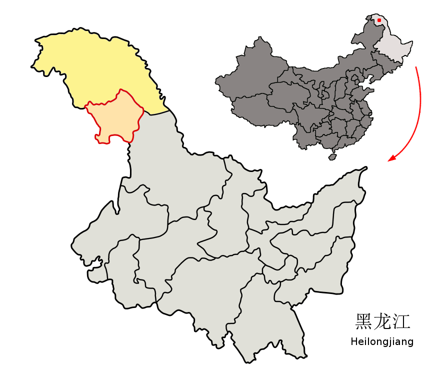 Location of Daxing'anling Prefecture (yellow) within Heilongjiang Province of China. This map includes Jiagedaqi and Songling Districts (light salmon) under Heilongjiang administration, although these territories nominally belong to Inner Mongolia. Map drawn in november 2007 using various sources, mainly : Heilongjiang Province administrative regions GIS data: 1:1M, County level, 1990 Heilongjiang Counties map from Map of Daxing'anling Prefecture